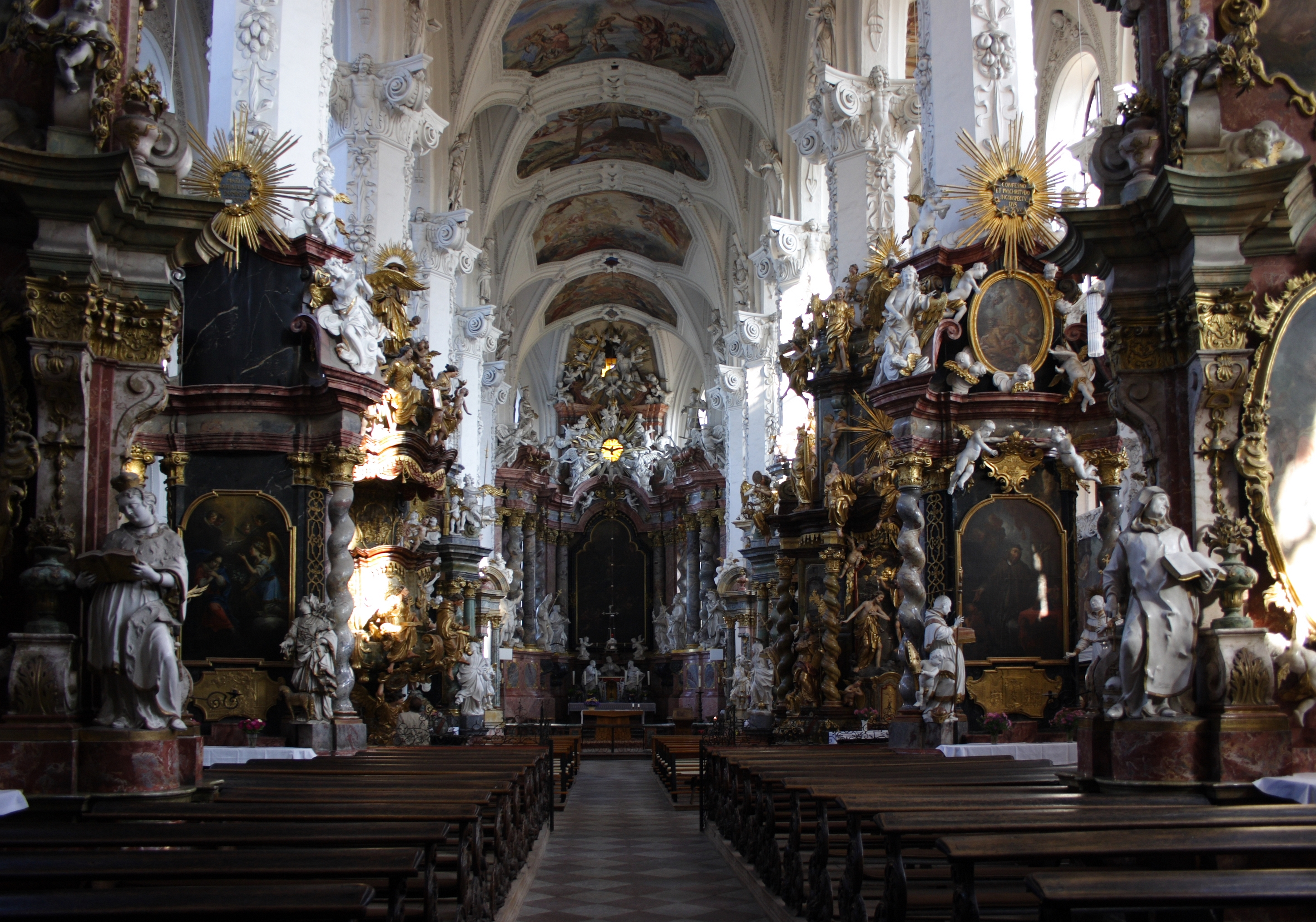 Inside view of Neuzelle abbey church.